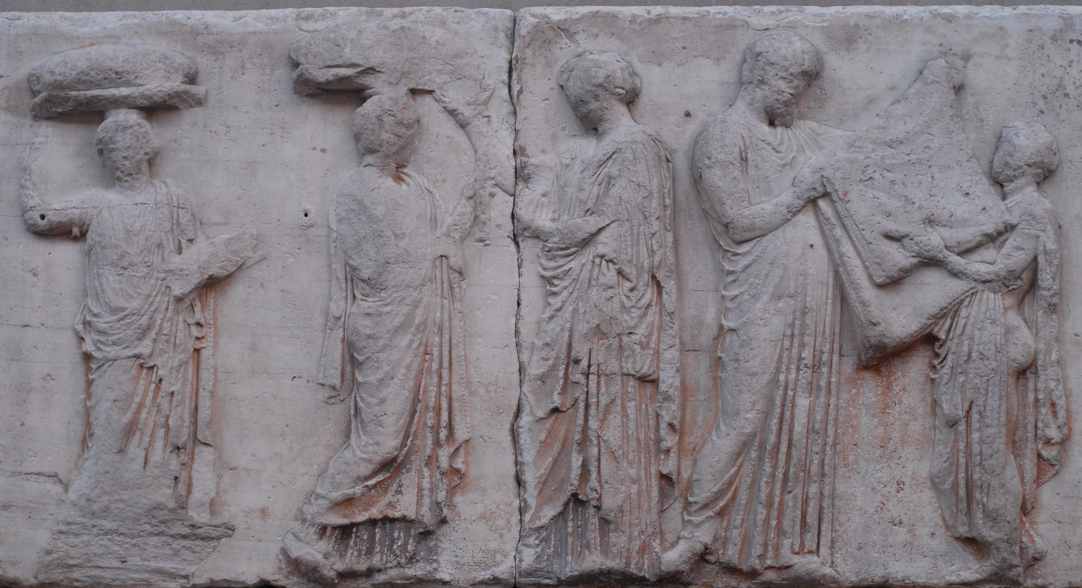 Peplos scene. Block V from the east frieze of the Parthenon, ca. 447–433 BC.